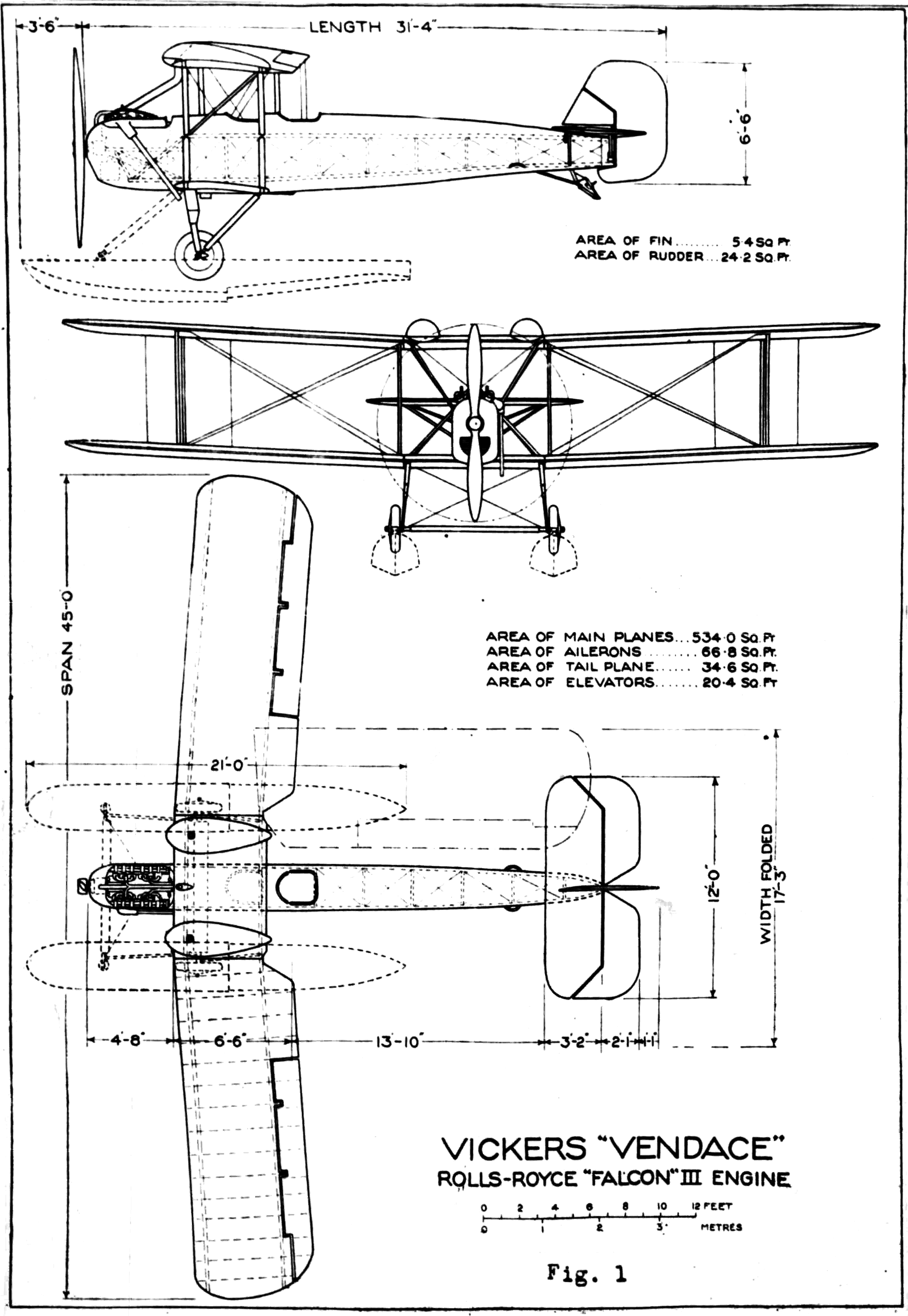 Vickers Vendace 3 view drawing from NACA Aircraft Circular No.3